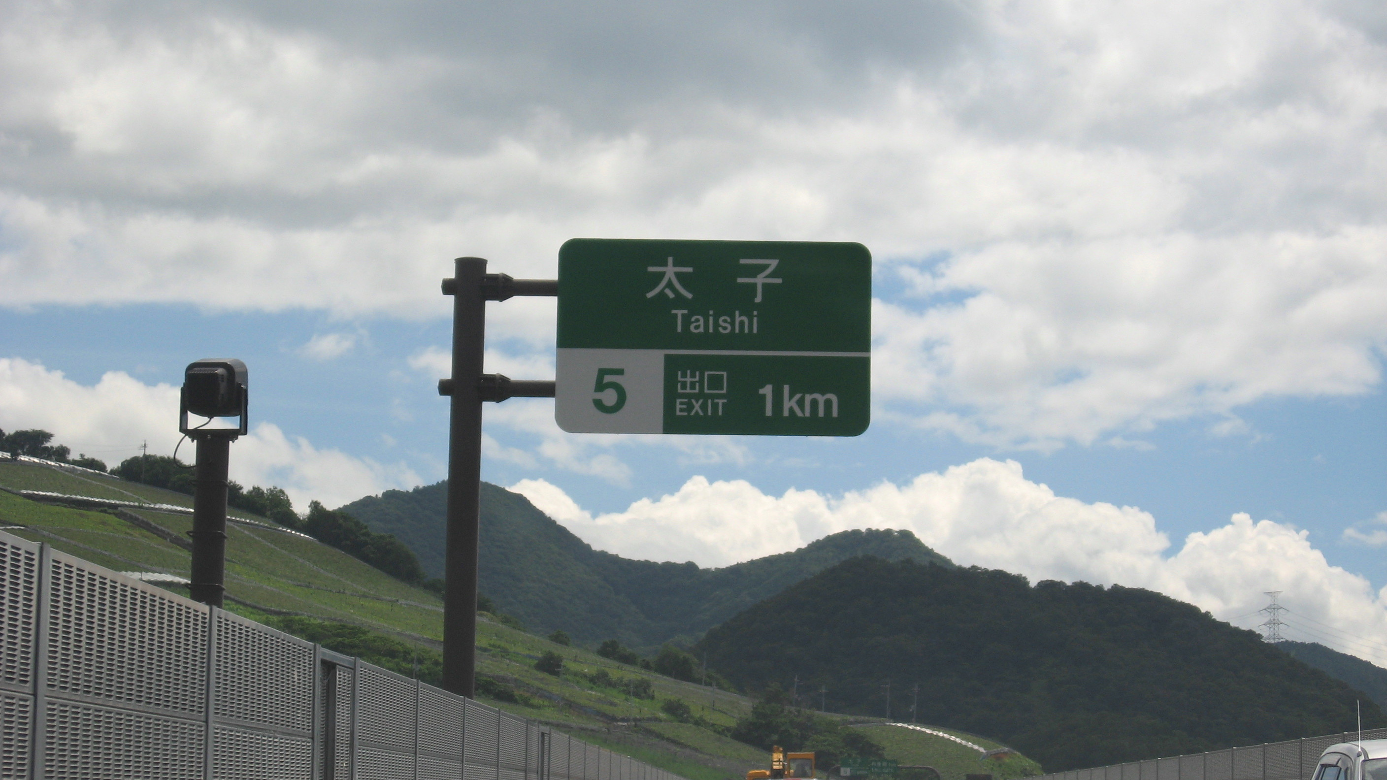 Taishi IC